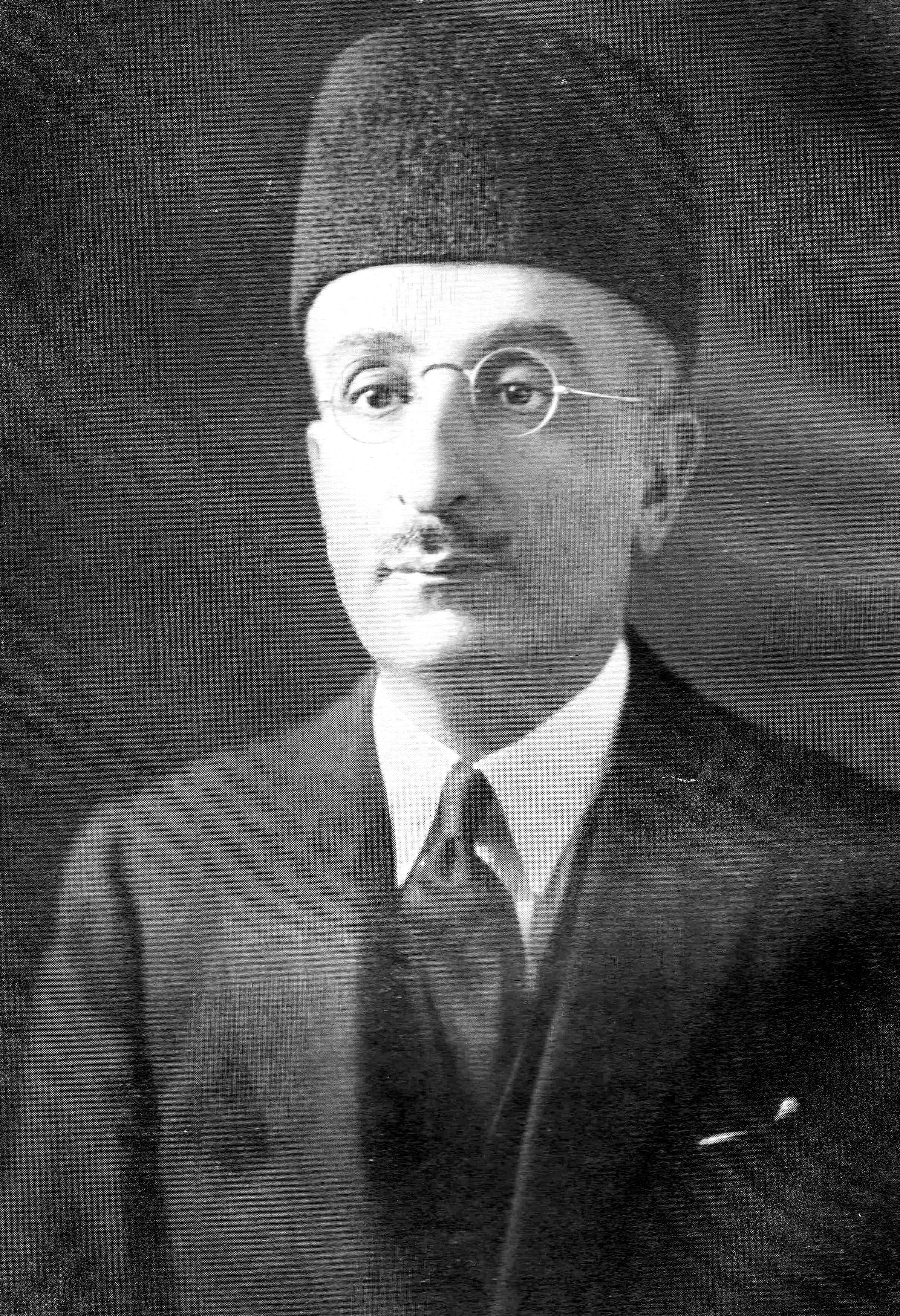 Diwan Sir Mirza Ismail (Circa. 1930)